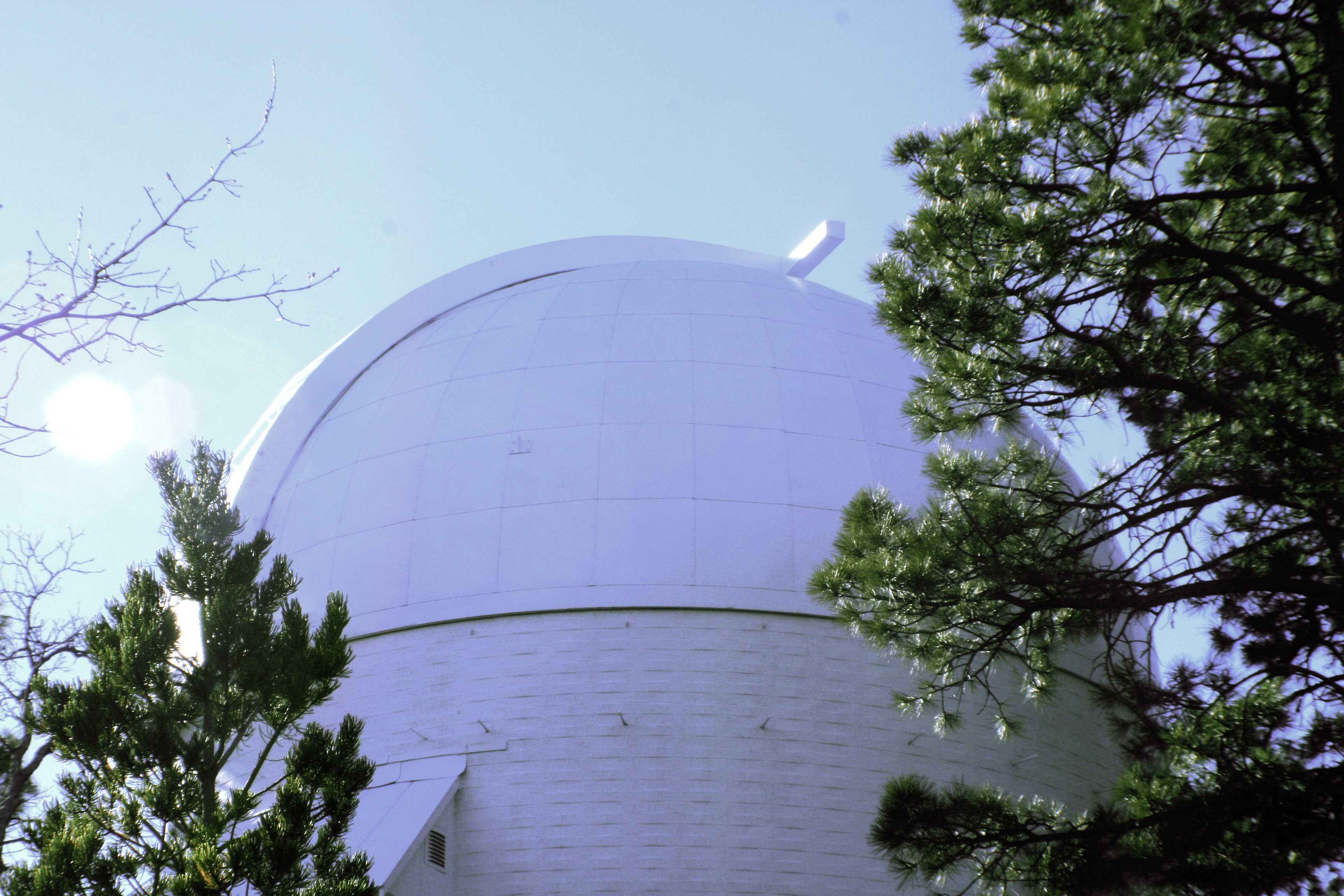 They were closed, but we still had a good look around.Lowell Observatory